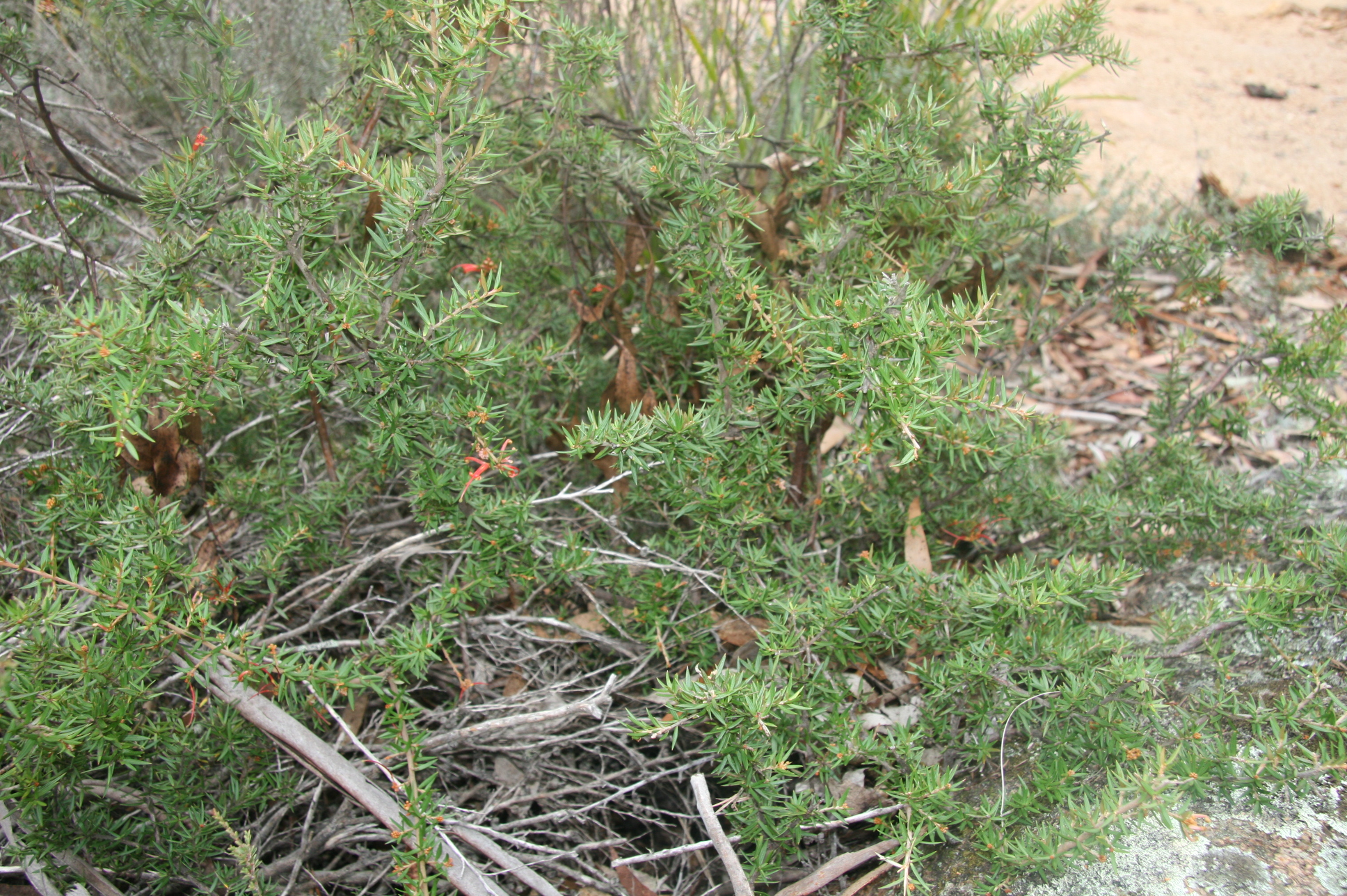 Grevillea juniperina at Morong Creek, near Kowmung River